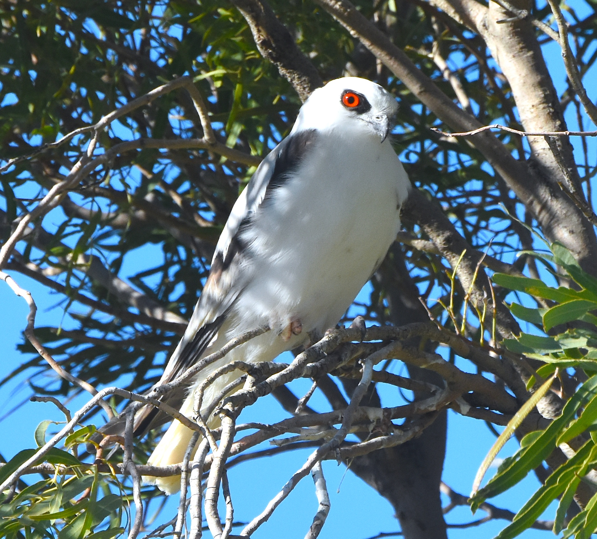 A Letter-winged Kite perched in a nest tree near Diamantina National Park Queensland.